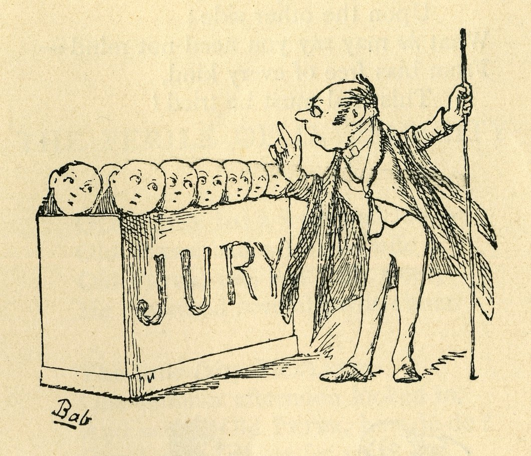 W. S. Gilbert's illustration for "Now, Jurymen, hear my advice" from Gilbert and Sullivan's Trial by Jury